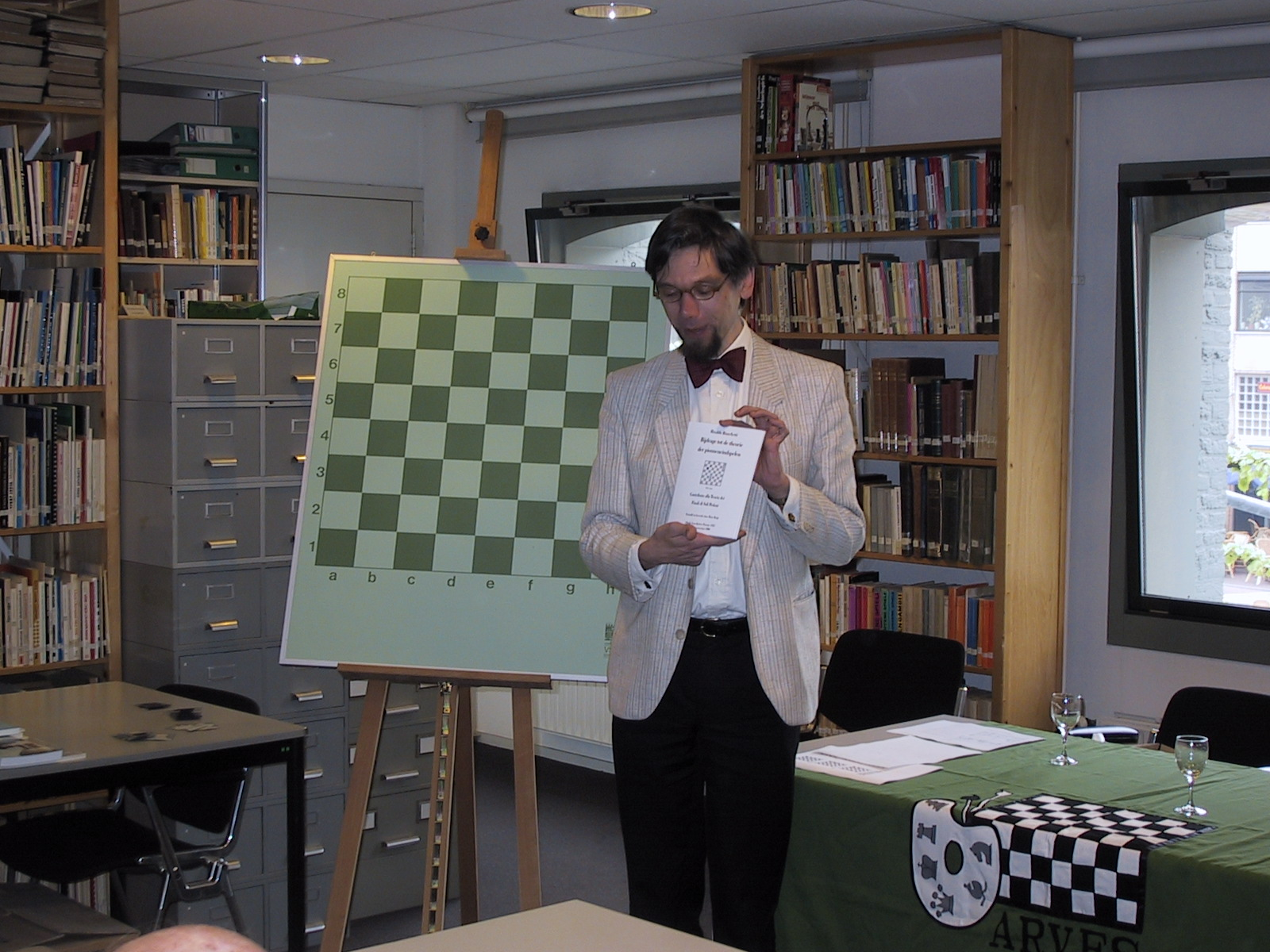 Hans Buijs, secretary of ARVES (Alexander Rueb Vereniging voor SchaakEindspelStudie), at a meeting in the Max Euwe Centrum in Amsterdam